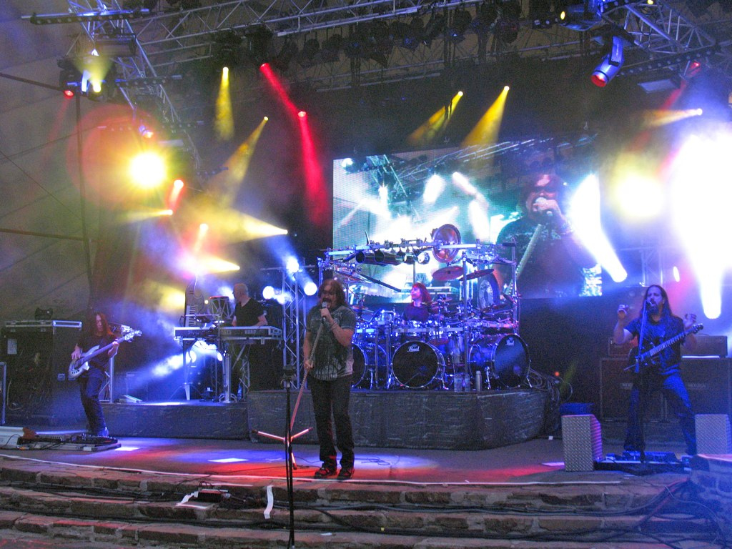 Dream Theater performing live in 2011.